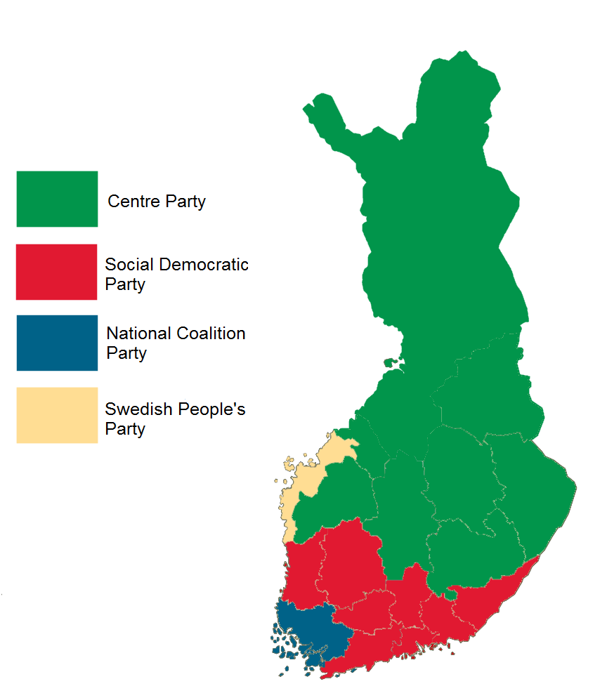 Finnish parliamentary election results by province, 2003